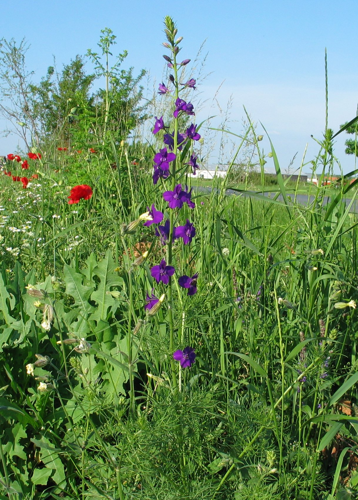 Consolida orientalis by the roadside, 2005-05-26, Algyő, Hungary